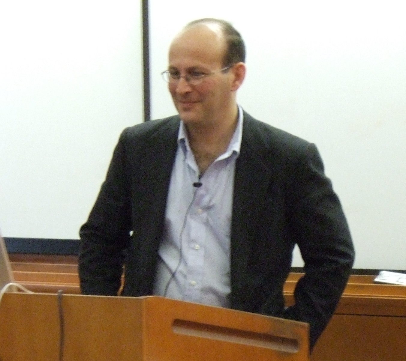 Carl Malamud holding a talk at Berkeley about "(Re-)defining the public domain" (Internet archive: video. Audio available here